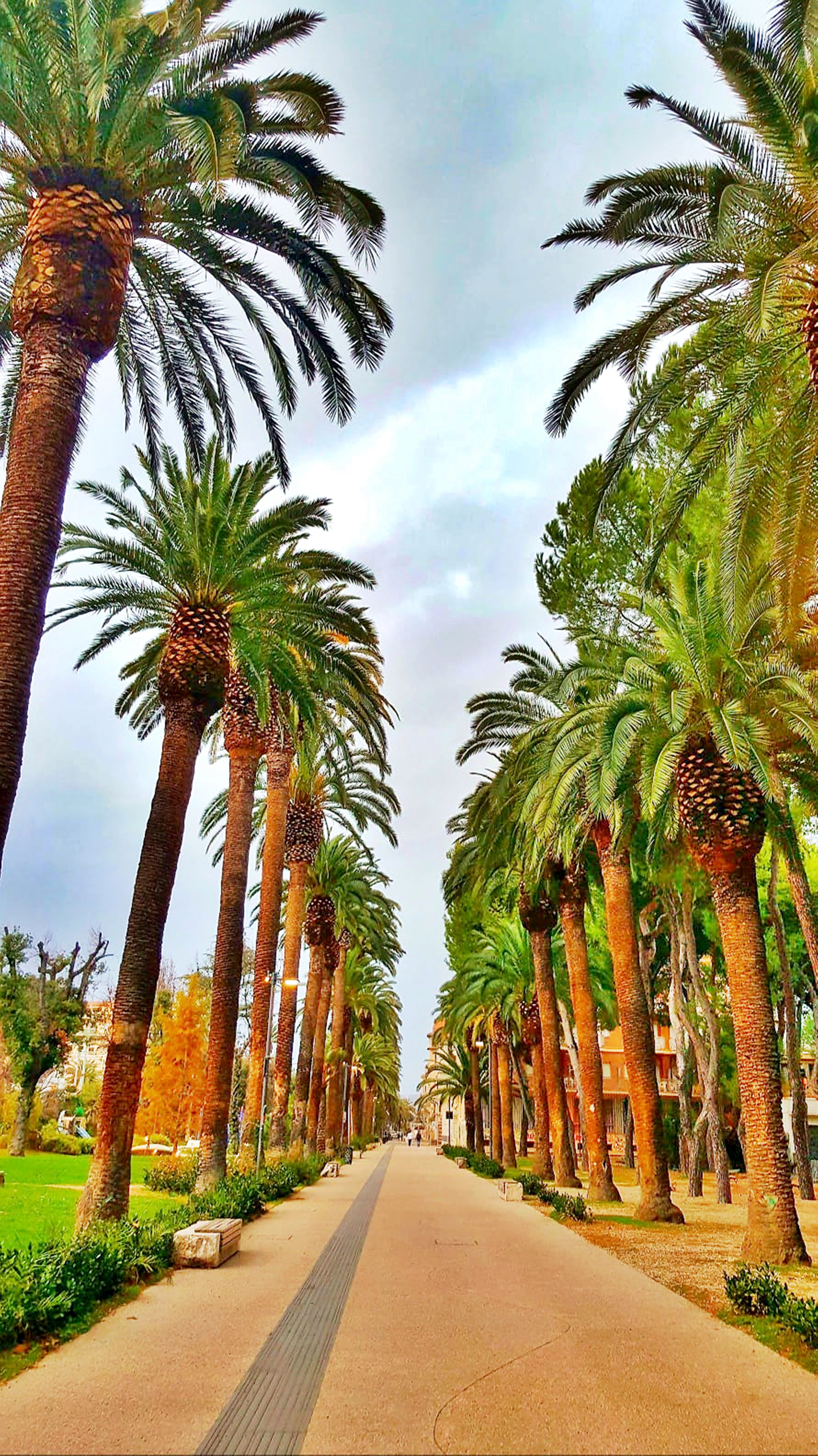 San Benedetto del Tronto, the phoenix canariensis palm in via Olindo Pasqualetti.